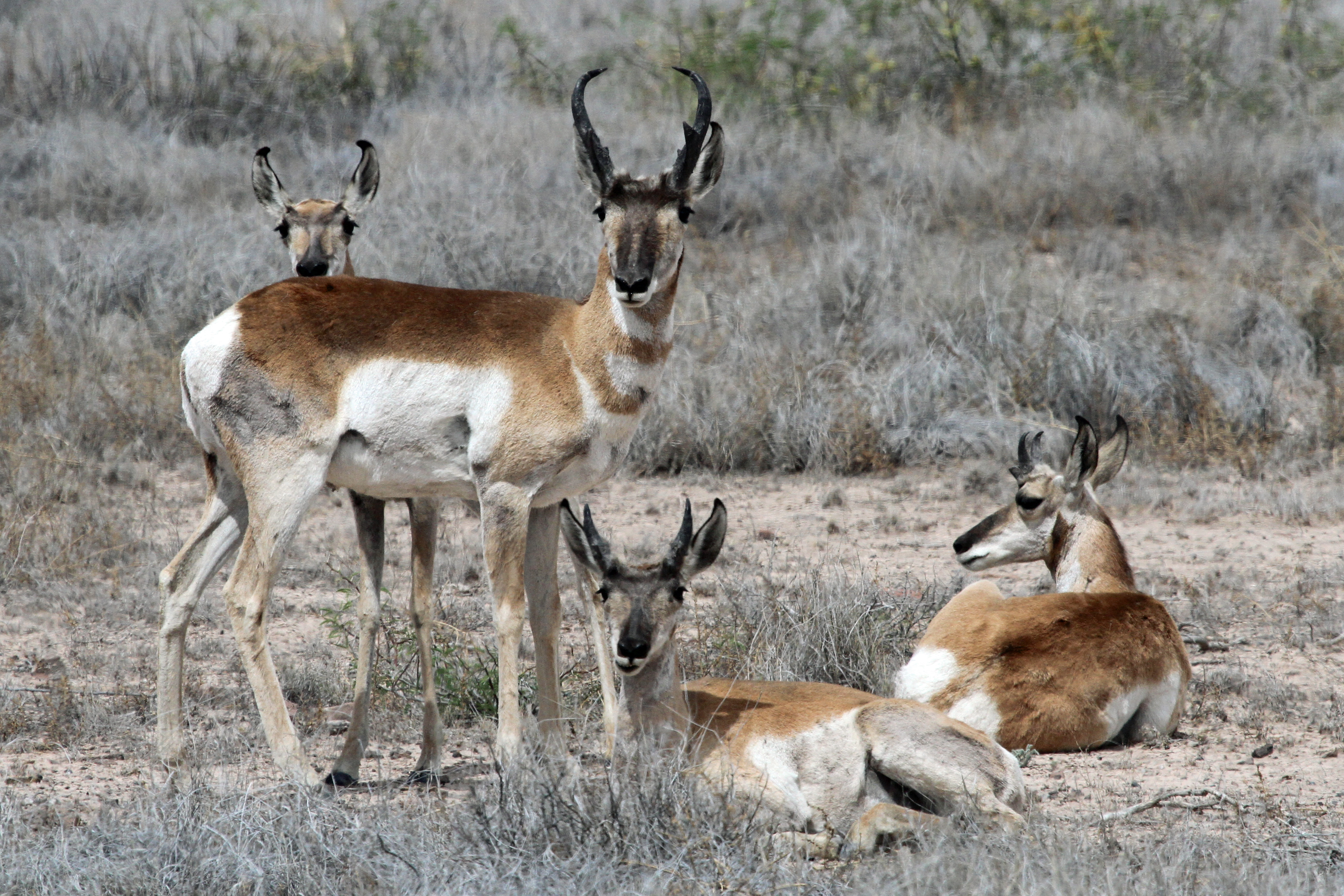 Pronghorn